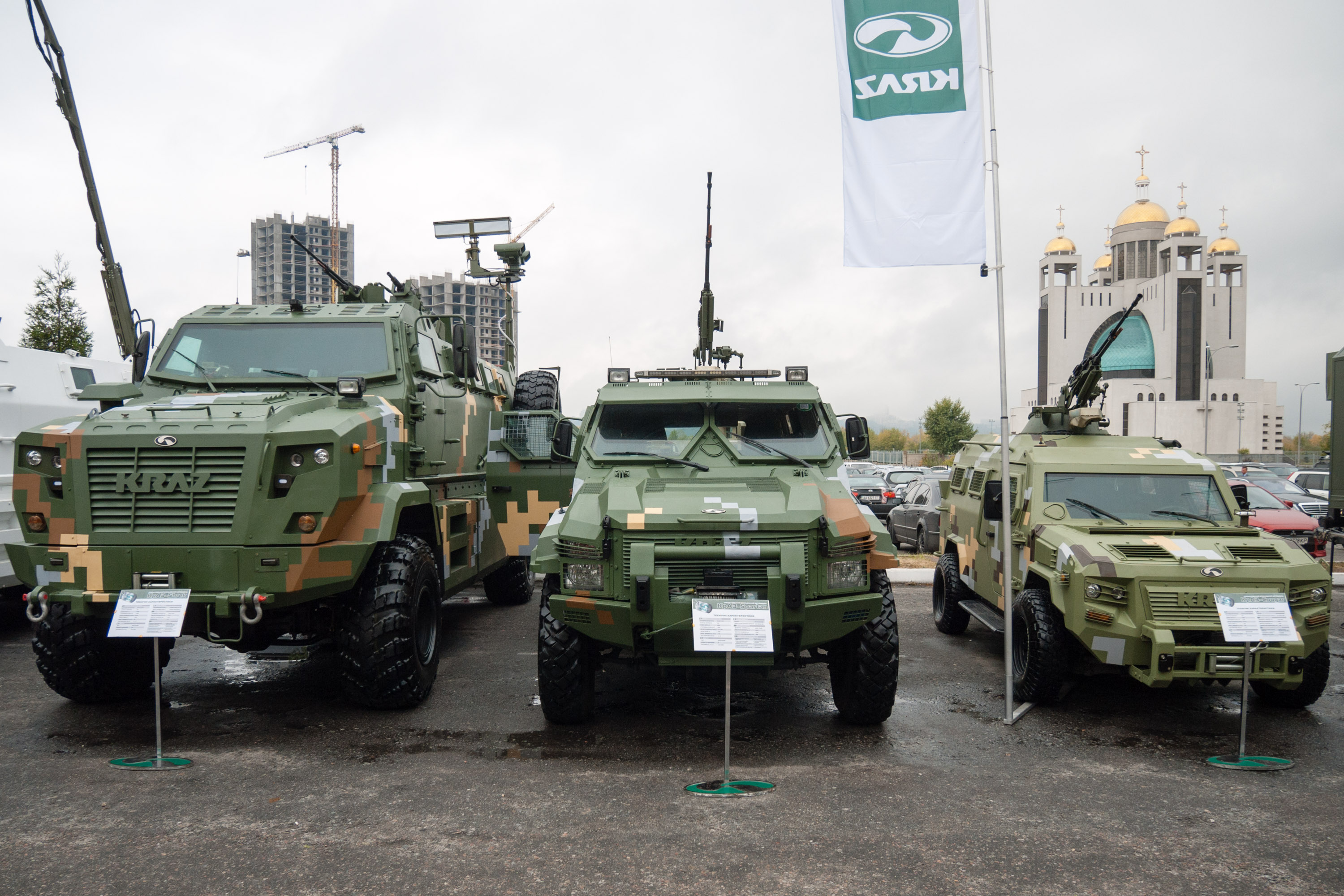 KrAZ armored vehicles